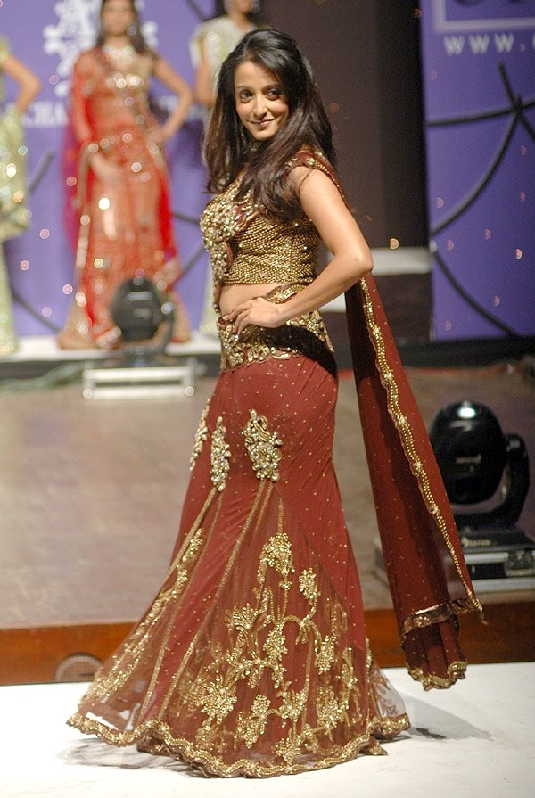 Archana Kochhar unveiled her bridal collection at NCPA with Raima Sen